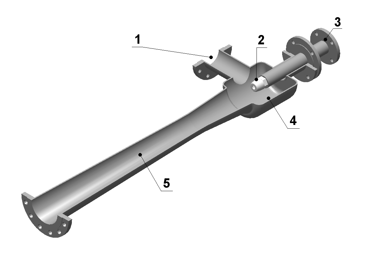 Sectional view of a steam ejector